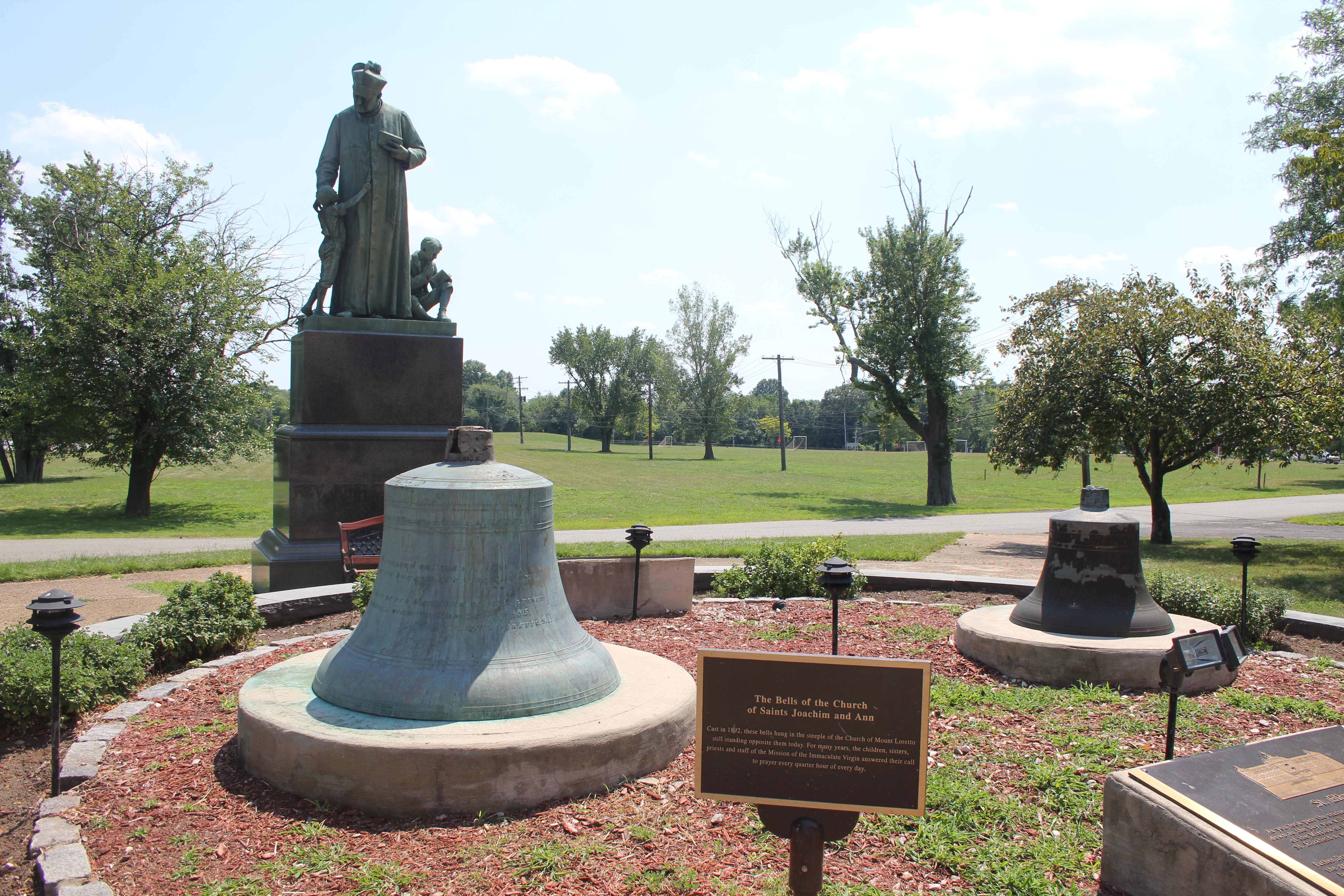 Statue of Rev. John C. Drumgoole (1816-1888), a Roman Catholic priest who founded Mount Loretto, an historic orphanage and children's home in Staten Island, NY. It depicts Drumgoole caring for two young newsboys, who were the original focus of his charity work. This statue was created in 1894 and originally stood at another institution founded by Drumgoole in Manhattan. It was moved to Mount Loretto in 1920, and as of August 2015 still stands on the grounds of that historic institution, in front of the Old Church of St. Joachim and St. Anne (north of Hylan Boulevard between Sharrott and Page avenues). Also shown in this photo are two bells that were retrieved from the church after a serious fire in 1973; the church has since been rebuilt.